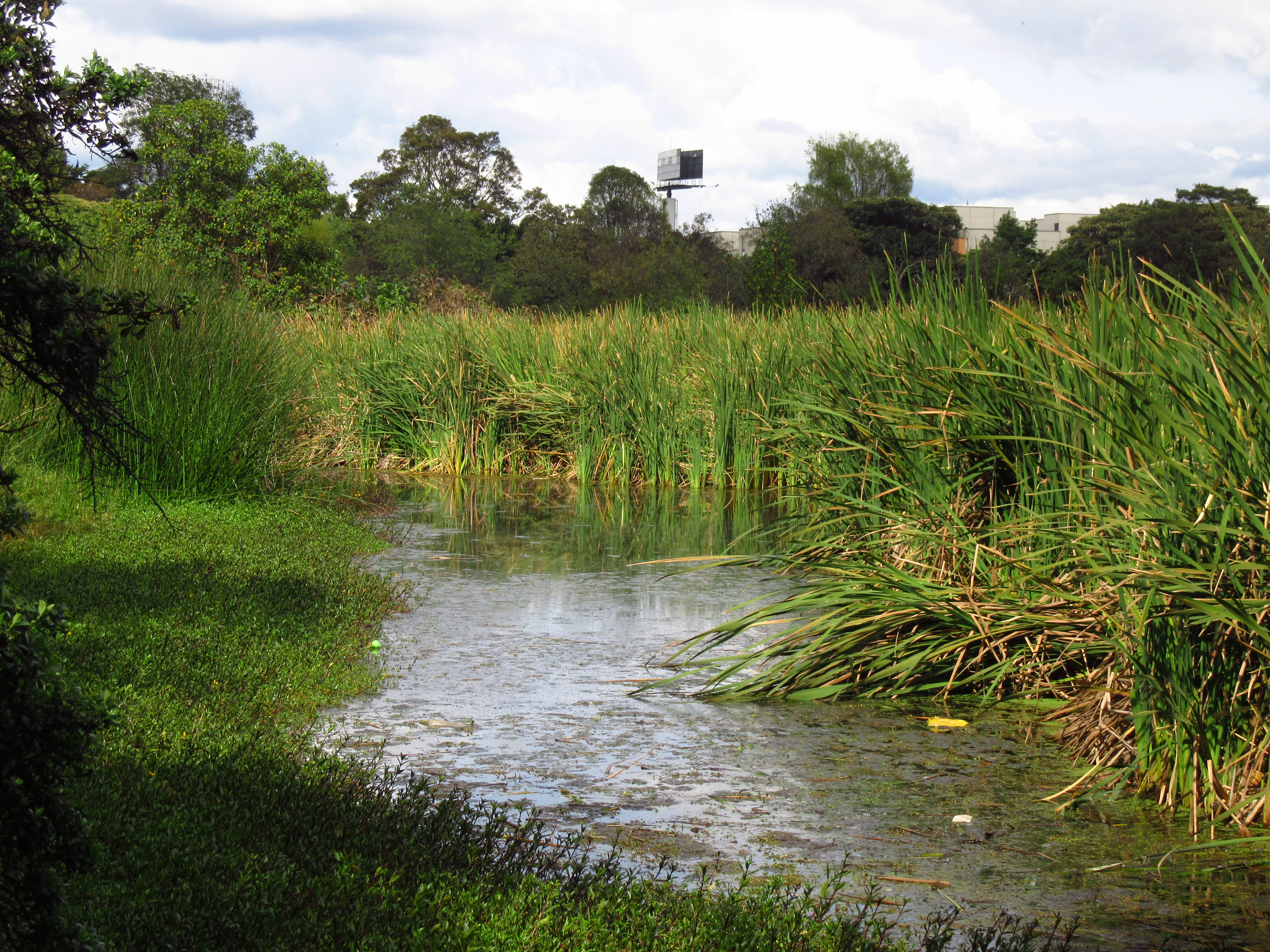 Vegetación en el lago del humedal Santa María del Lago, en Engativá.